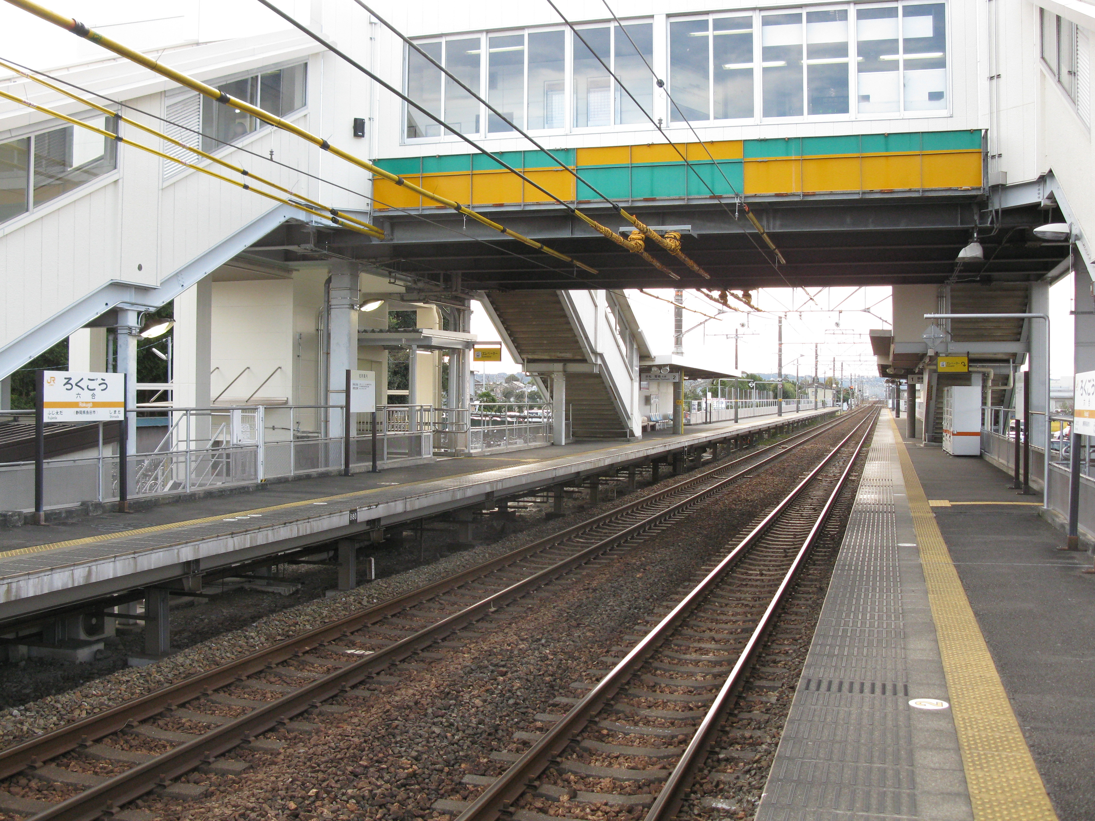 Rokugō Station platform (Central Japan Railway(JR Central) Tōkaidō Main Line)